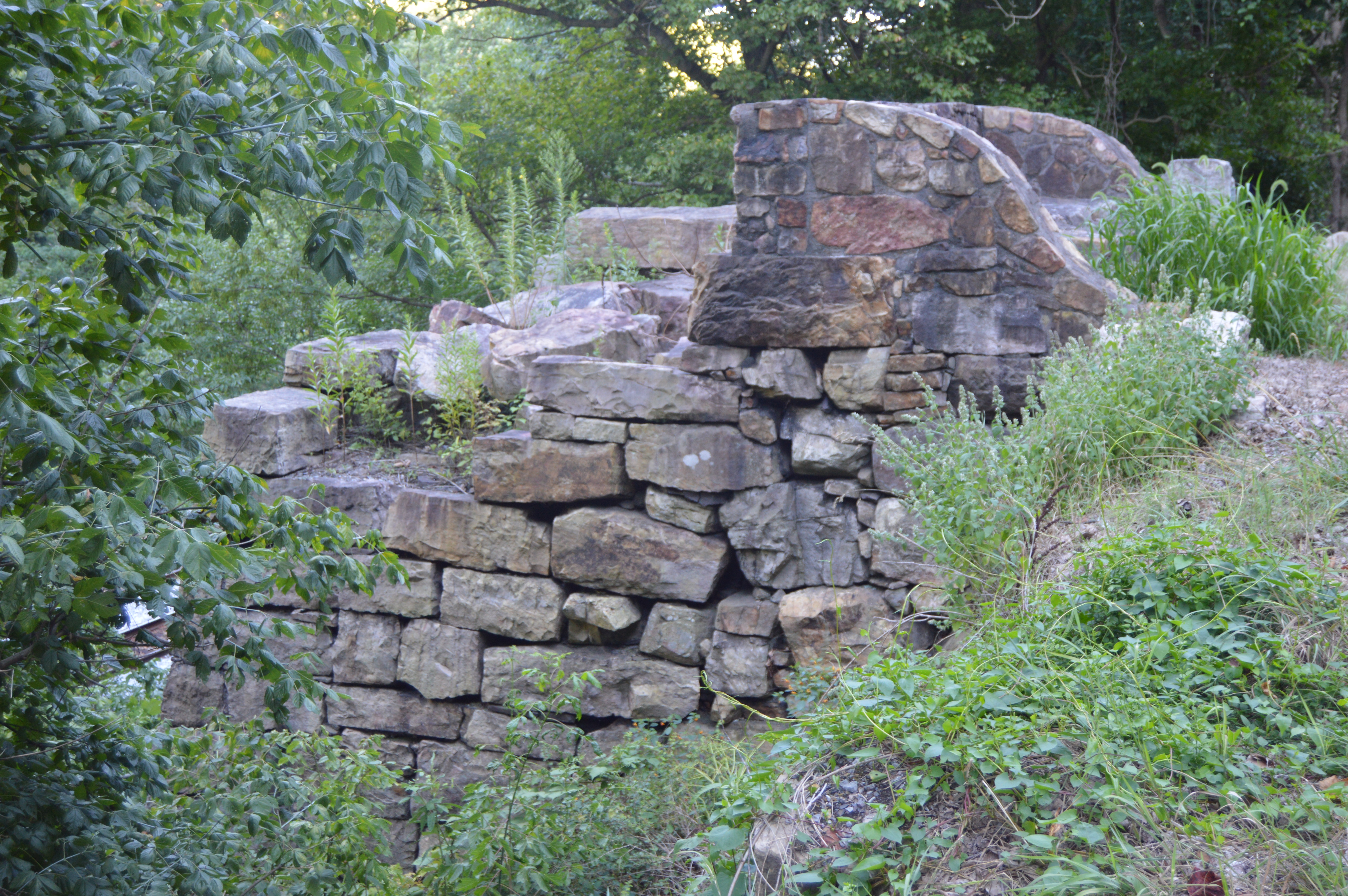 Northern side of the Clifton Furnace, located on U.S. Route 220 between Clifton Forge and Iron Gate in Alleghany County, Virginia, United States. Built in 1846, it is listed on the National Register of Historic Places.